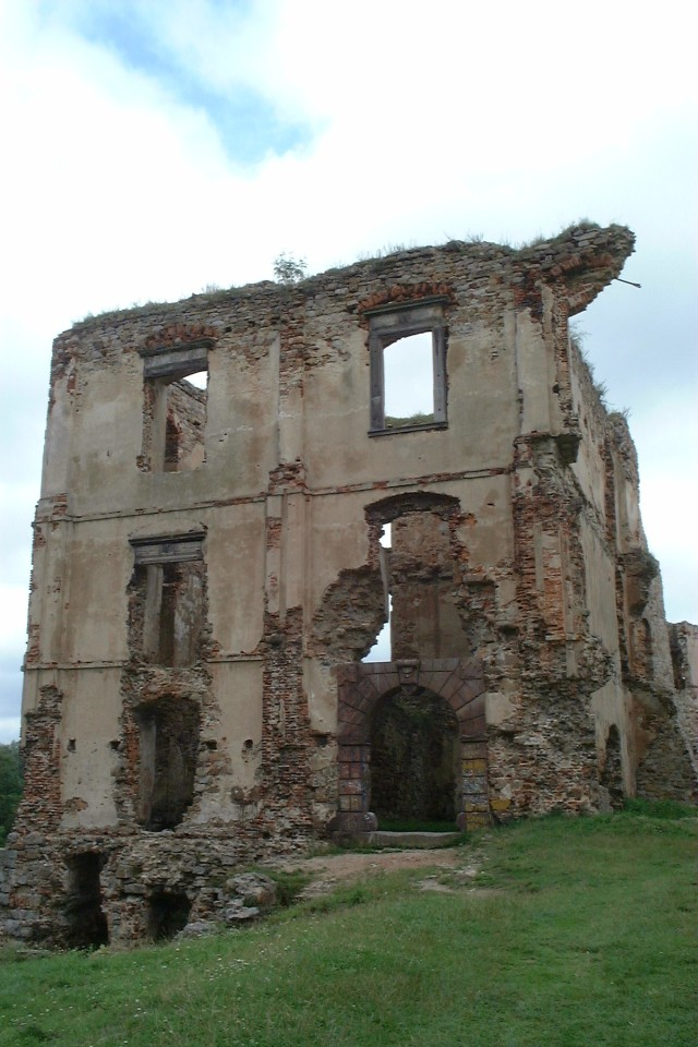 Poland, Bodzentyn - castle ruins.